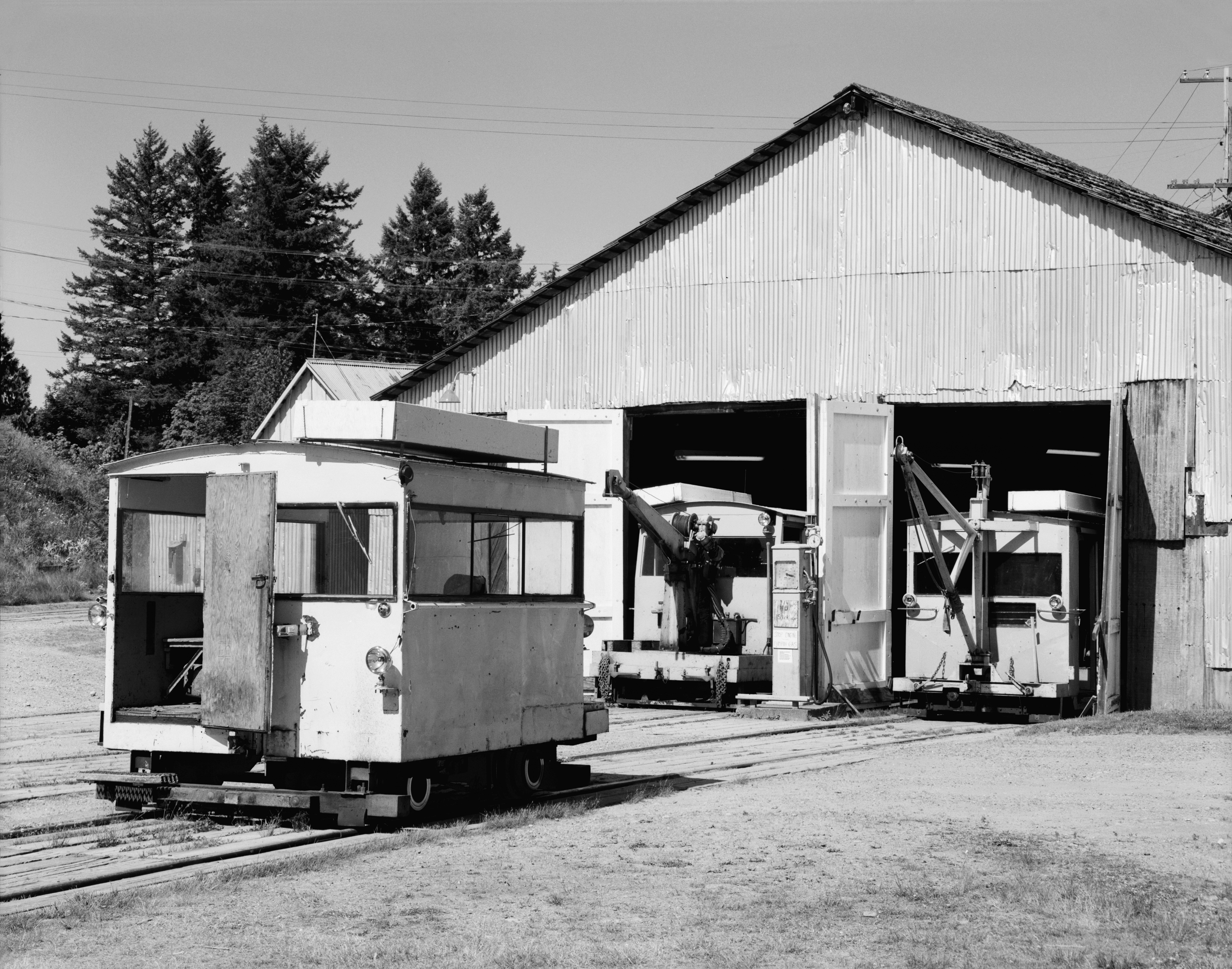 Shuffleton, Samuel L; Puget Sound Power and Light Company; Congdon, Chester A; Stone and Webster; Webster, Edwin S; Stone, Charles A; Columbia Improvement Company; Mitchell, S Z; Quinan, C E; Harrisburger, J; Yearby, Jean P, transmitter; Fitzsimons, Gray, historian; Garvey, Dick, photographer; Lombard, Barry, historian